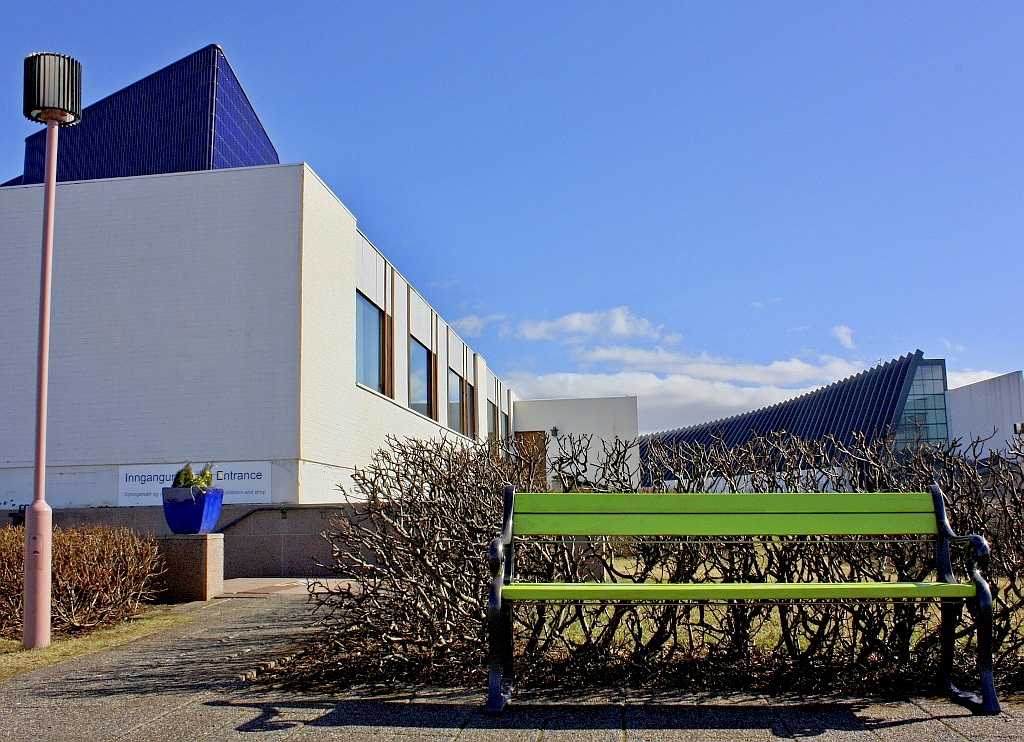 The Nordic House in Reykjavik, Iceland